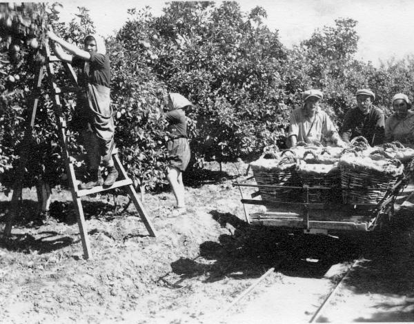 Orange picking in Gan Shmuel